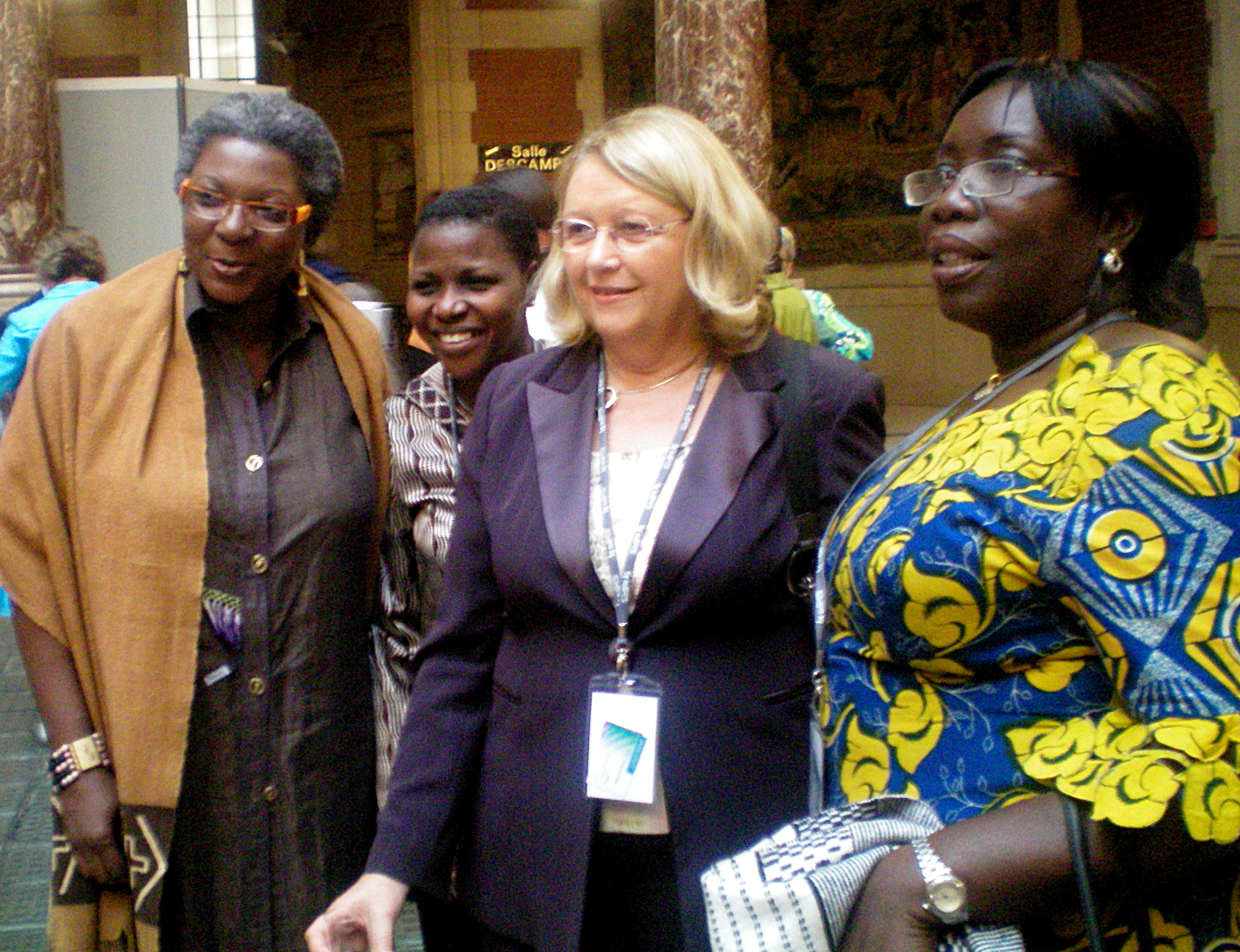 Monique Frize, née Aubry (born 1942) is a Canadian academic and biomedical engineer known for her expertise in medical instrumentation and decision-support systems[